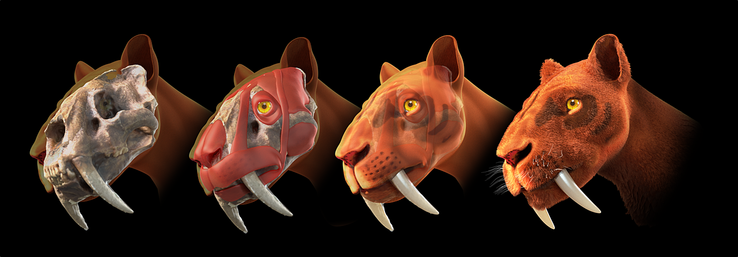 Steps of reconstruction